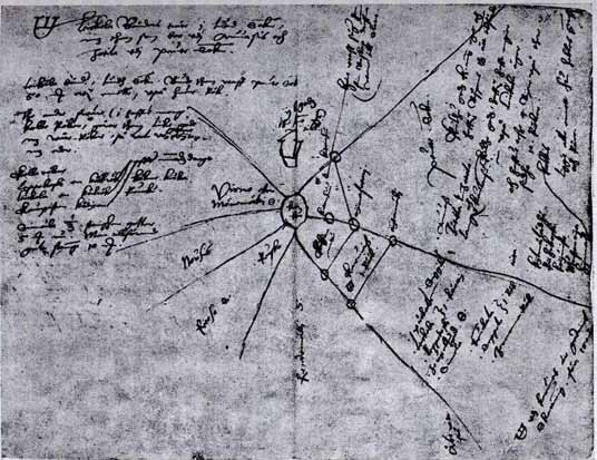 The first map of the Kuhankuono boundary mark in Finland Proper and the parishes (pitäjä) that extend to it. The map was first published in 1550 and the original is now situated in the National Archives.